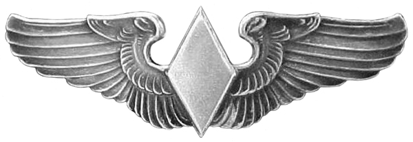 U.S. Army Air Corps/Air Force WASP badge Courtesy U.S. Air Force